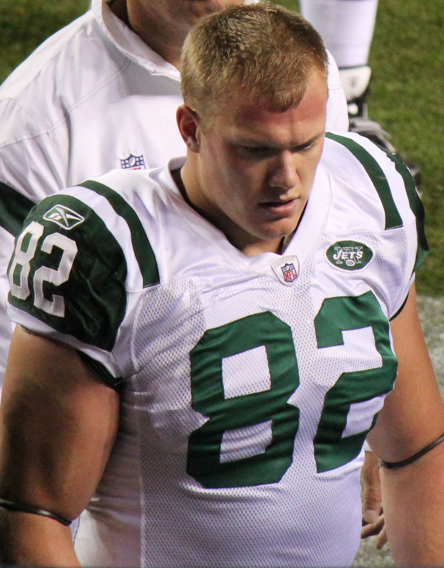 Matthew Mulligan, a player on the National Football League.